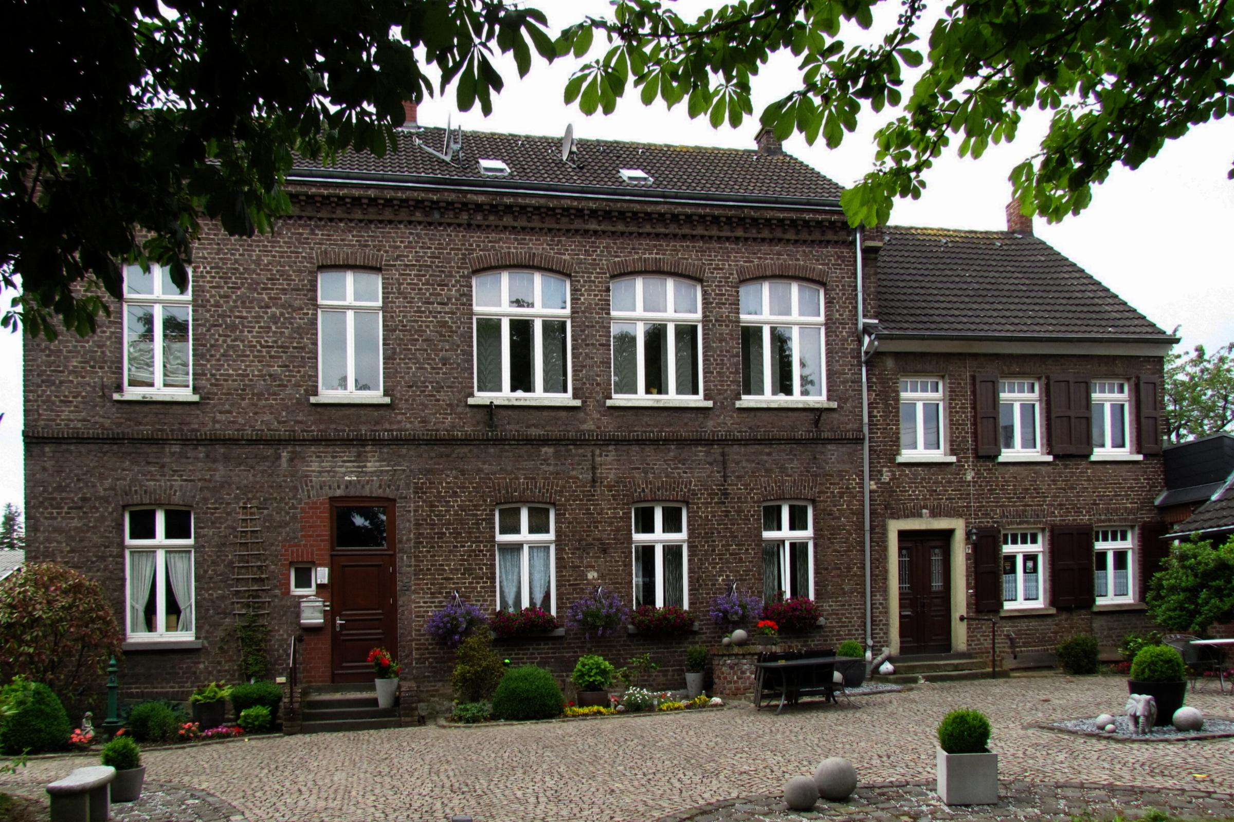 This is a photograph of an architectural monument.It is on the list of cultural monuments of Korschenbroich